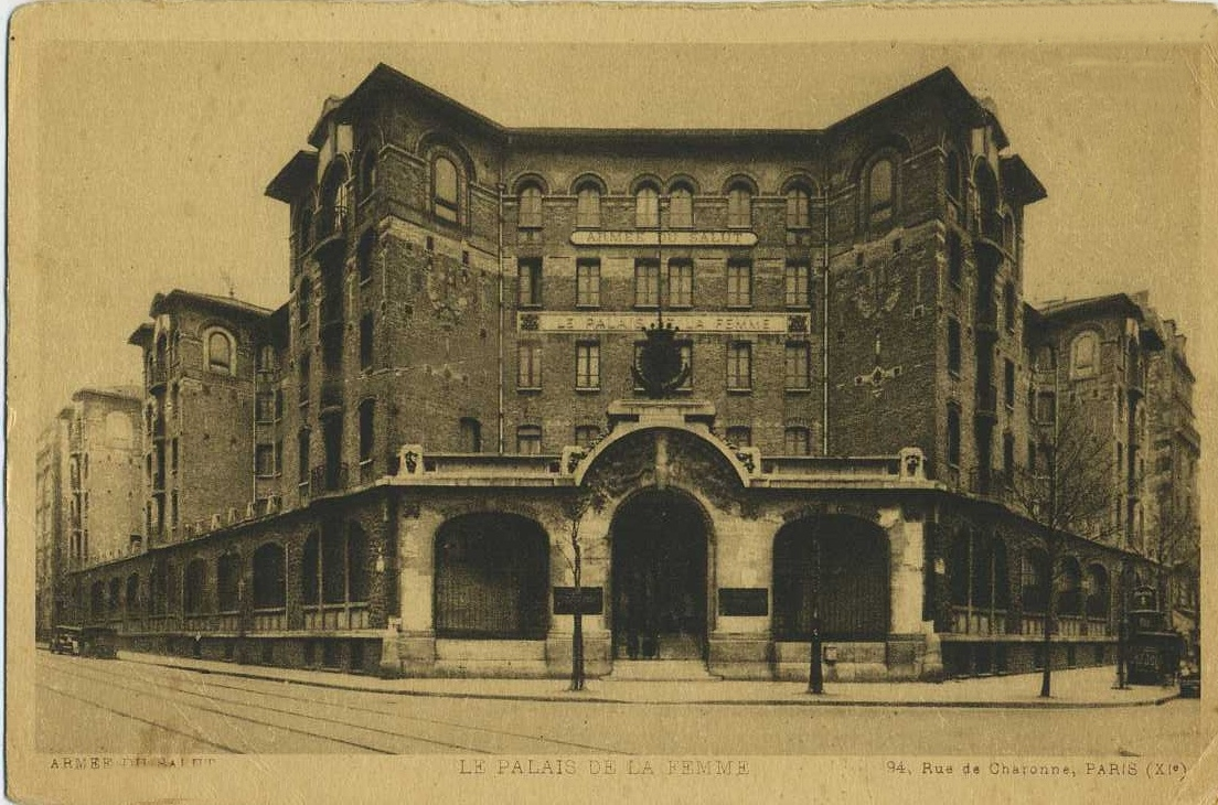 Palais de la Femme, an hotel for women of the Salvation Army. General view. Address: 84 rue de Charonne; Paris 11. France. Old postcard